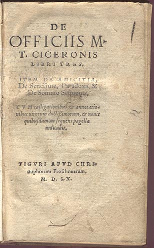 Print of Cicero’s De officiis and other philosophical works, printed 1560 by Christopher Froschouer.